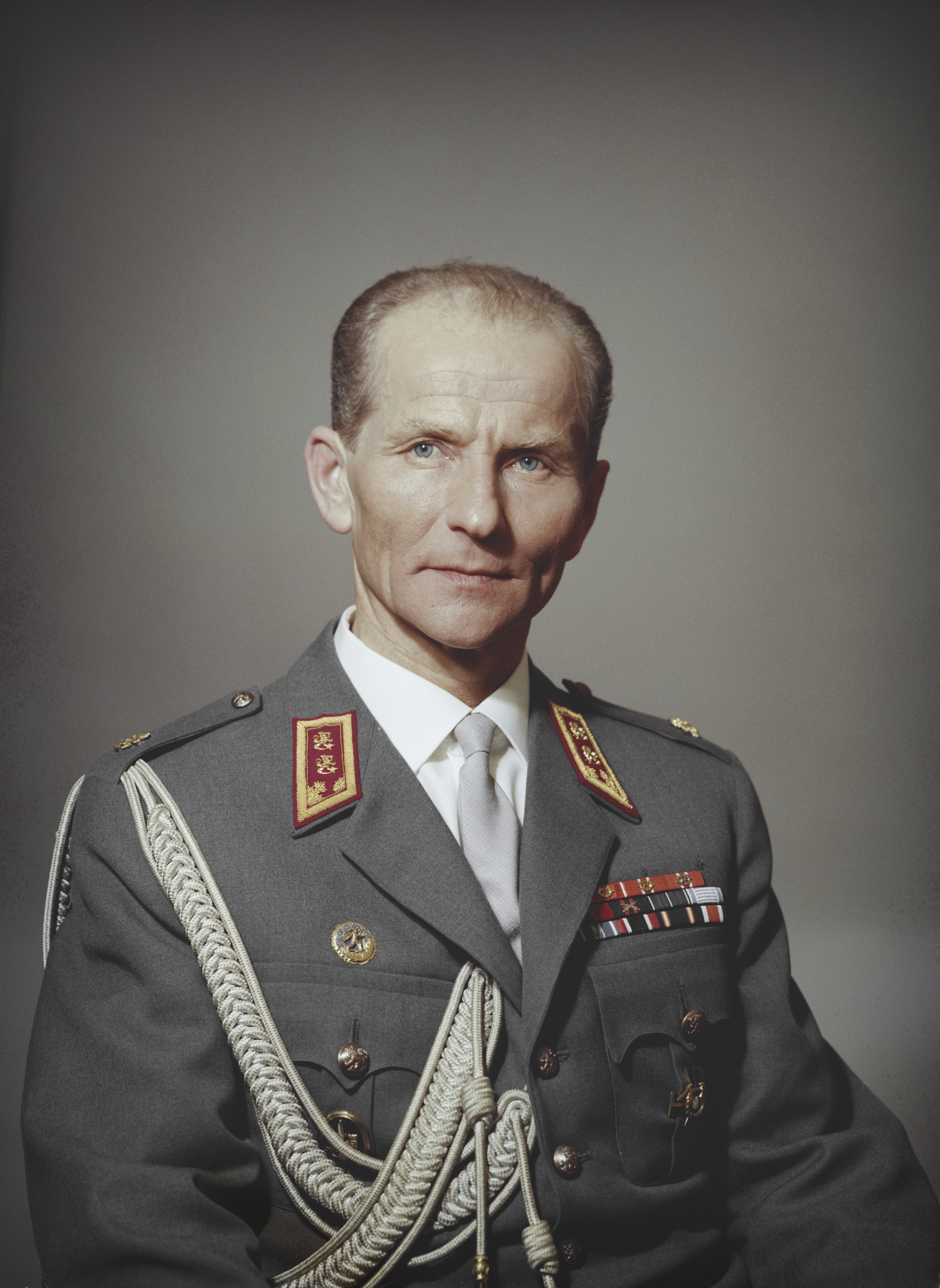 Photograph of the Finnish lieutenant-general Yrjö Keinonen (1912–1977).